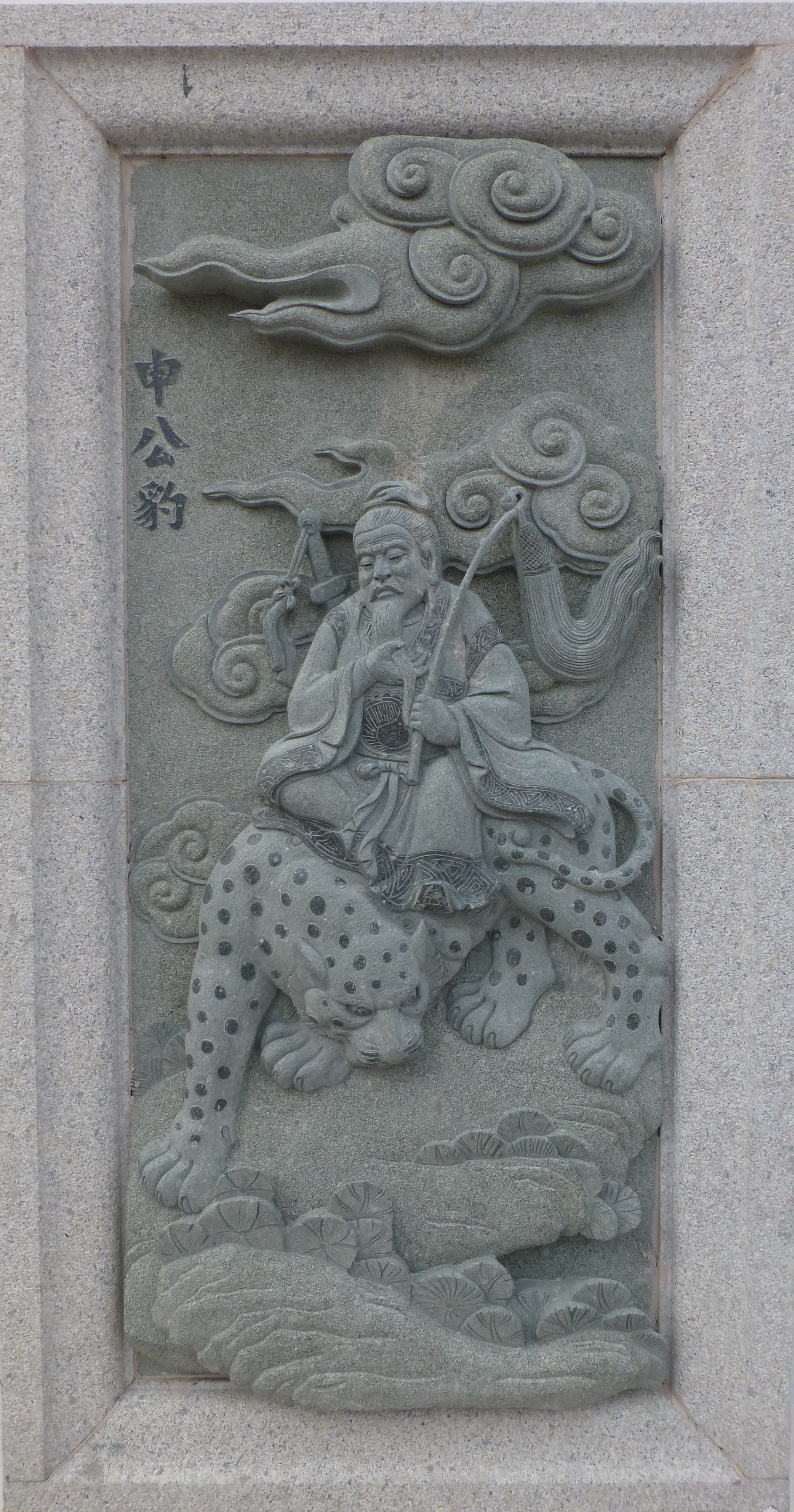 035 Shen Gongbao, Investiture of the Gods at Ping Sien Si, Pasir Panjang, Perak, Malaysia Photograph from the Ping Sien Si Temple in Perak, Malaysia taken by Anandajoti.